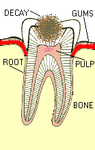 Decay